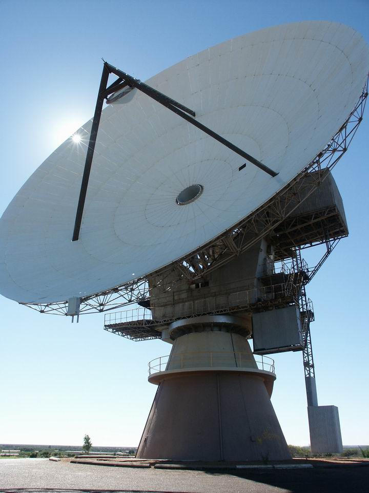 Carnarvon ex NASA tracking station.